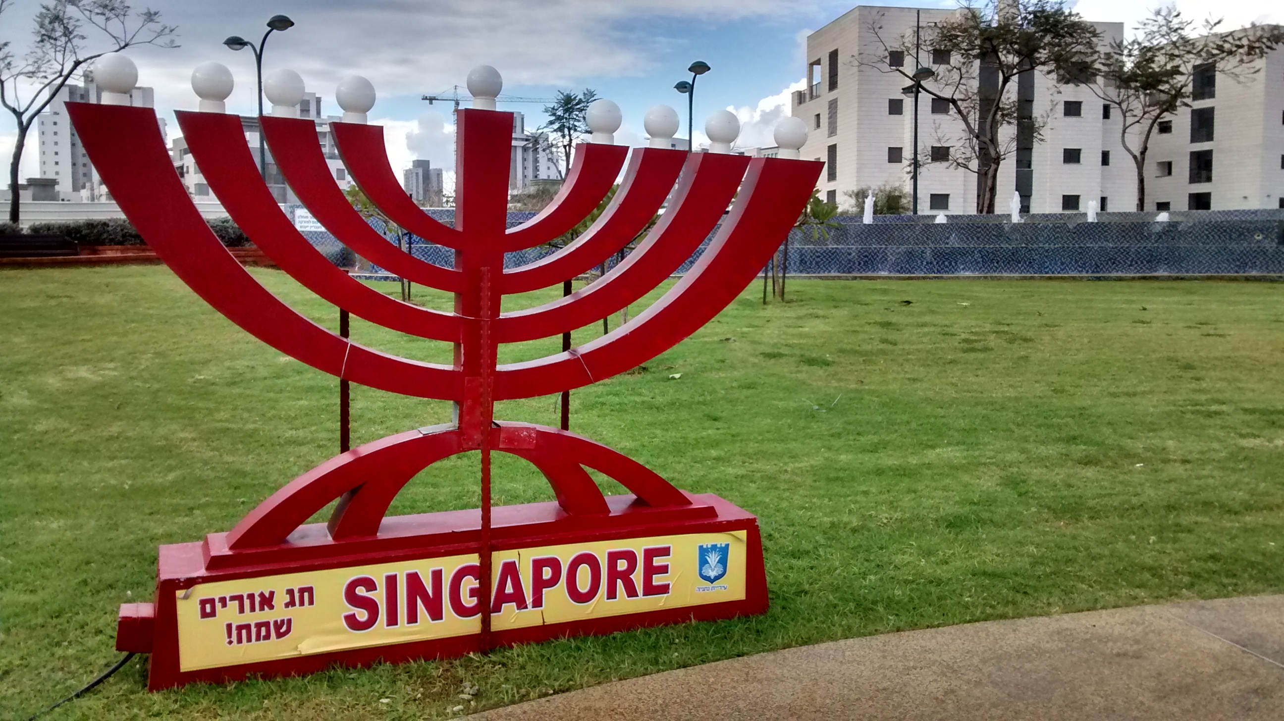 Outdoor Hanukiah in Netanya 2016